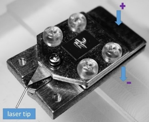 Fig.3. Laser tip on mount of the first demonstration of dynamic single mode laser at wavelength of 1.5 micrometers, in October 1980. By courtesy of the Museum of Tokyo Institute of Technology.